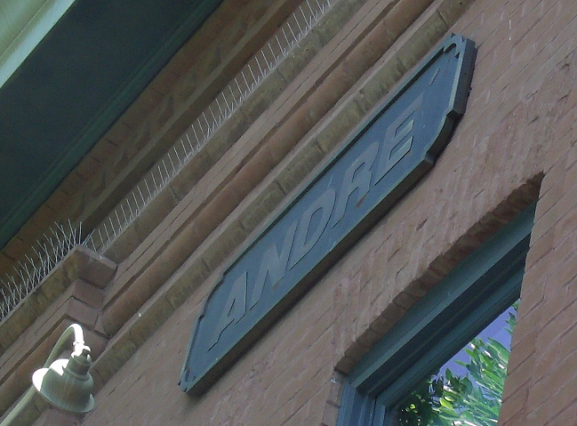 The Andre Building sign. The building located at 401-403 S. Mill Ave. in Tempe, Az. was built in 1888. It was listed in the National Register of Historic Places on August 10, 1979 reference #79000419